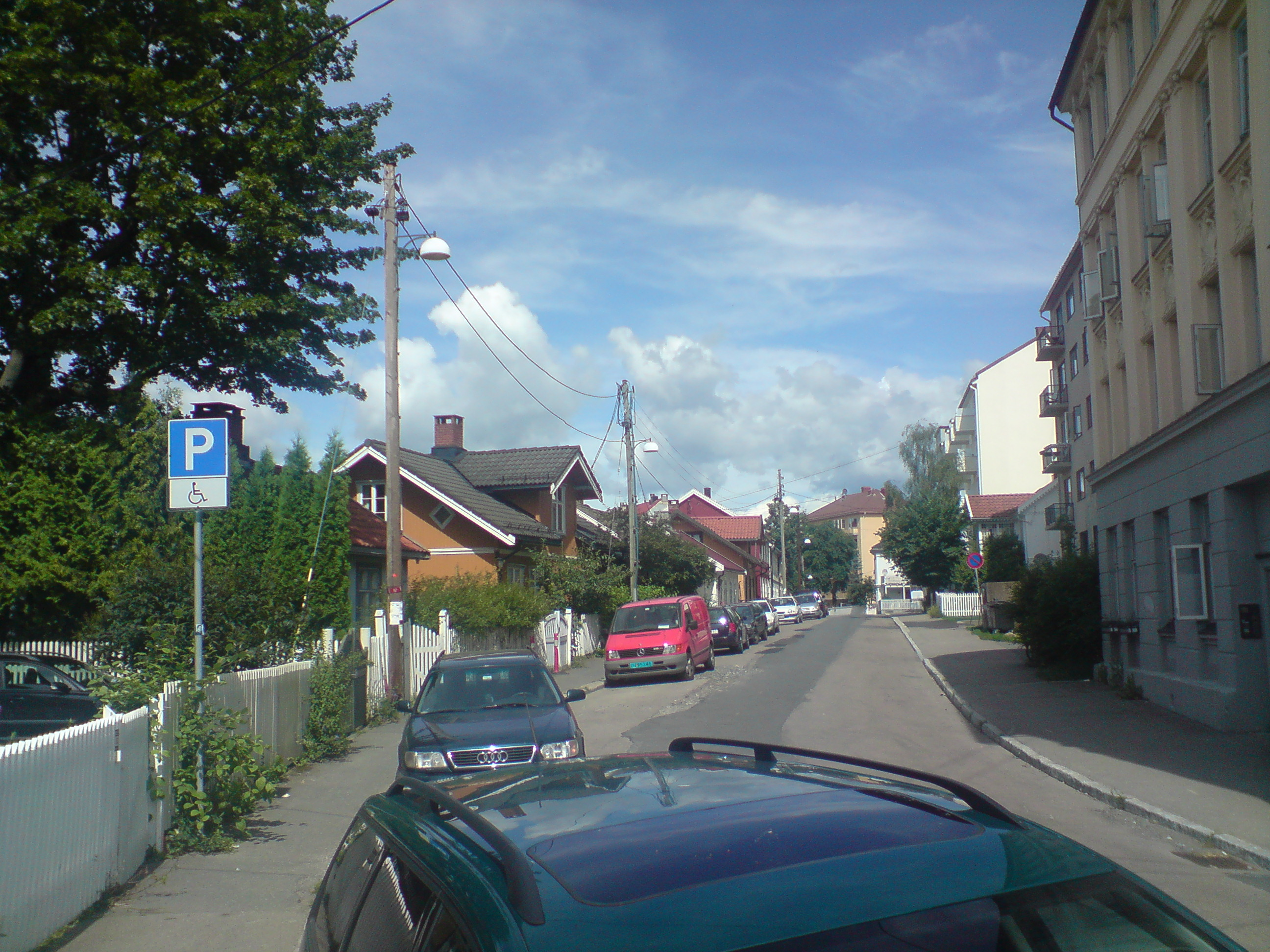 Etterstadgata in Oslo